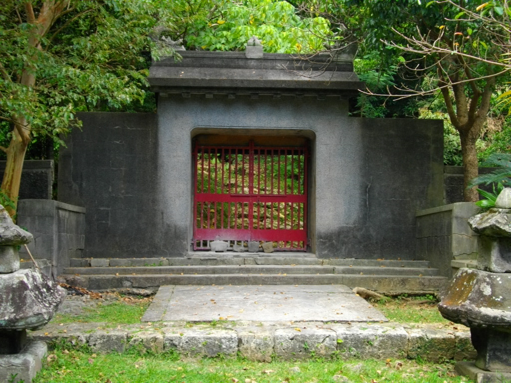 Bengadake